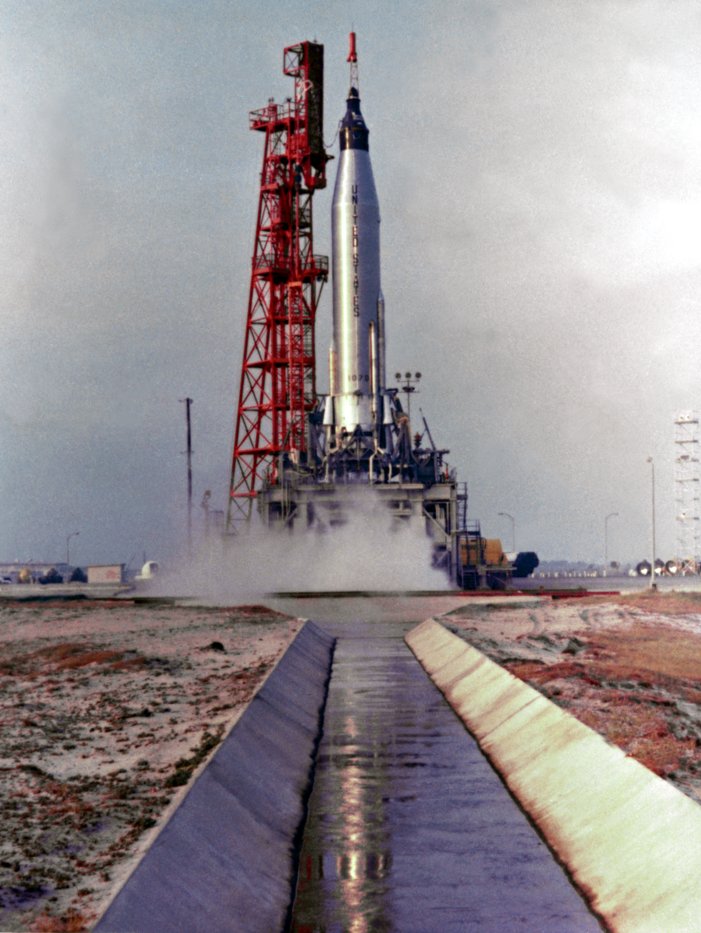 Scott Carpenter's Aurora 7 Mercury Atlas rocket lifts off from Pad 14, Cape Canaveral, Florida, on May 24, 1962.